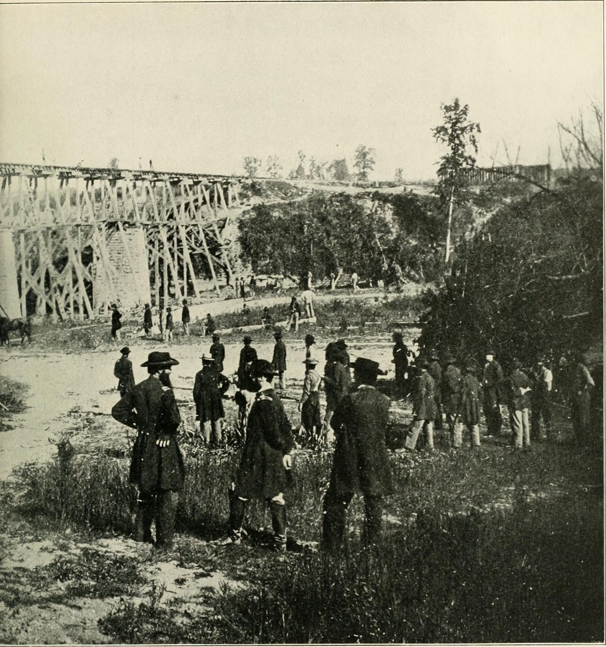 Title: The photographic history of the Civil War : thousands of scenes photographed 1861-65, with text by many special authorities Year: 1911 (1910s) Authors: Miller, Francis Trevelyan, 1877-1959 Lanier, Robert S. (Robert Sampson), 1880- Subjects: United States -- History Civil War, 1861-1865 Pictorial works United States -- History Civil War, 1861-1865 Publisher: New York : Review of Reviews Co. Text Appearing Before Image: )i iight from Nashville. The roads were heavy with mud and tlie incessant rains had swollen the streams,making it not only .slow but almost impossible for wagon trains to keej) in touch witli tlic base. Over theCentral Alabama (Naslnillc and Decatur Railroad) food and other necessities for tlic armys verjexist- (212) Text Appearing After Image: Copi/riyitI by Review of Reviews Co. ENGINEERS AND INTANTRY BUSY AT THE ELK RIVER BRIDGE ence had to be transported. Among those workers who labored unconii)lainingly and whose work borefruit, was the First Regiment, Michigan Engineers, that numbered among its enlisted men mechanics andartisans of the first class. They built this bridge pictured here. Four companies were employed in itsconstruction, aided by an infantry detail working as laborers. The bridge was 700 feet long, 58 feet high,and crossed the Elk River at a point where the water was over 20 feet deep. At the right of the picturetliree of the engineer officers are consulting together, and to the left a squad of infantry are marching to theirjjosition as bridge guards. Here is the daily business of war—to which fighting is the occasional exception. \miiimiim^\